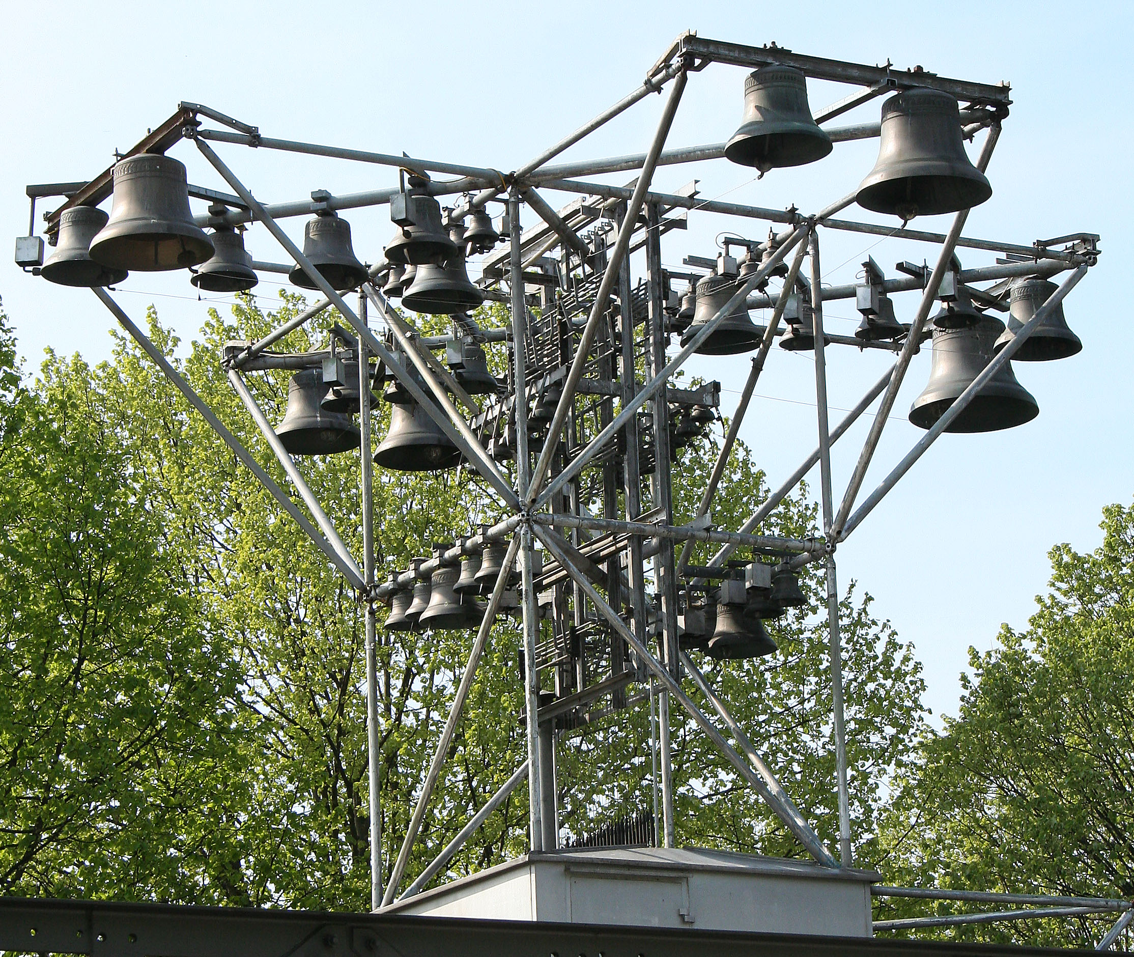 Carillon im Olympiapark München